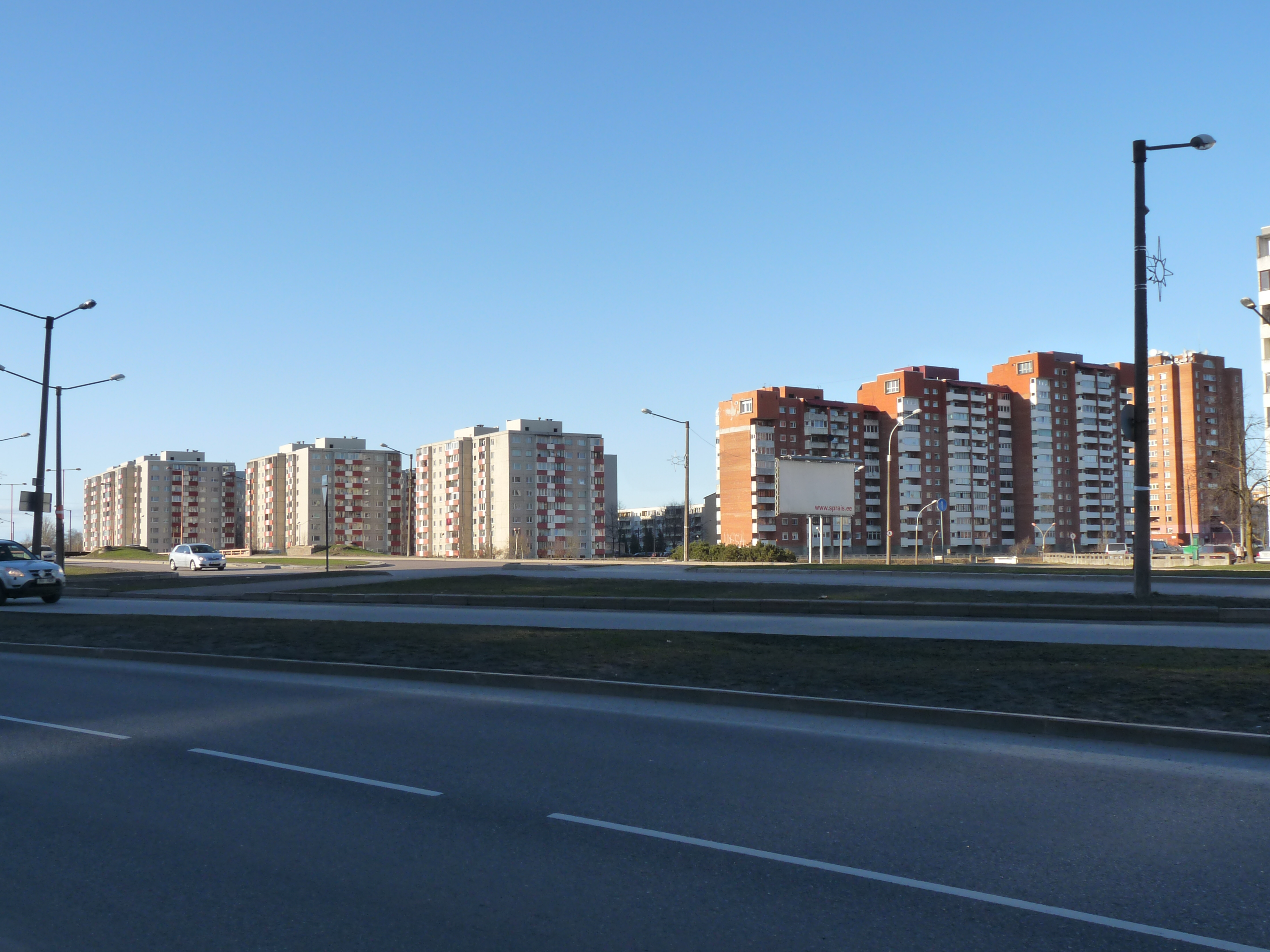 Apartment buildings on Koorti street